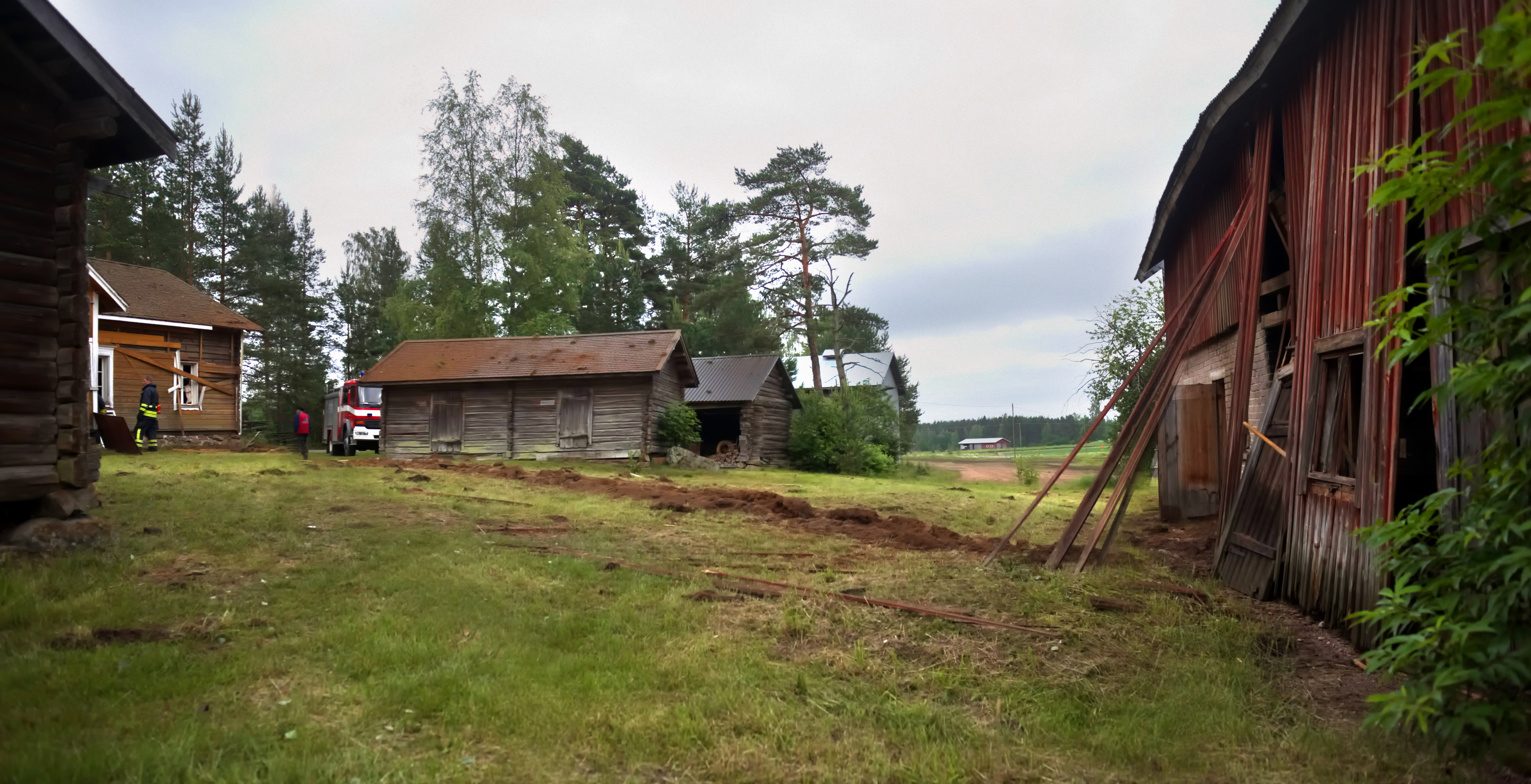 Thunderbolt attacked the Pätäri house museum in Ylämaa, Finland